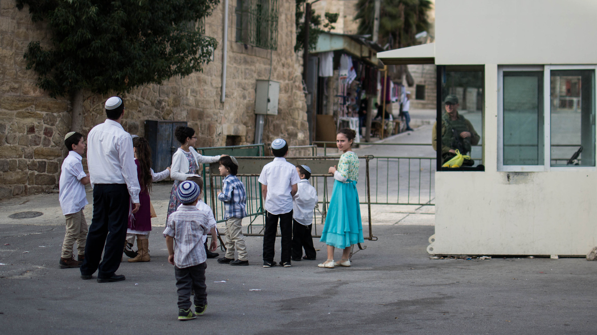 500px provided description: Al Khalil Hebron [#?????? ,#?????? ,#Israel ,#Hebron ,#IDF ,#Palestine ,#Settlement ,#Occupation ,#Settlers ,#Apartheid ,#Al Khalil ,#Shuhada Street ,#Ibrahim Mosque]